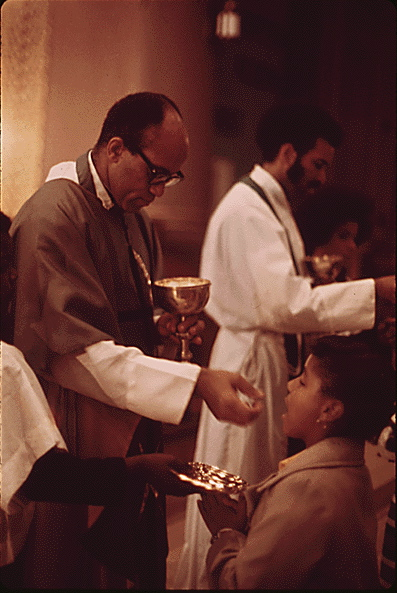 Rev. George. H. Clements giving Holy Communion, Chicago, 1973. Original caption: Holy Angel catholic church on Chicago's South side, 1973.